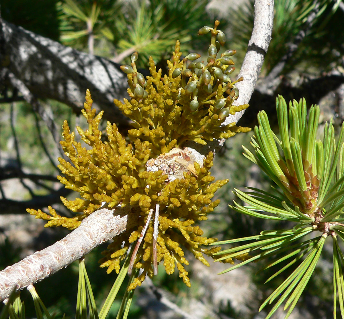 Arceuthobium cyanocarpum on Pinus flexilis alongside the South Loop trail above the avalanche chutes, Spring Mountains, southern Nevada (elev. about 2800 m)